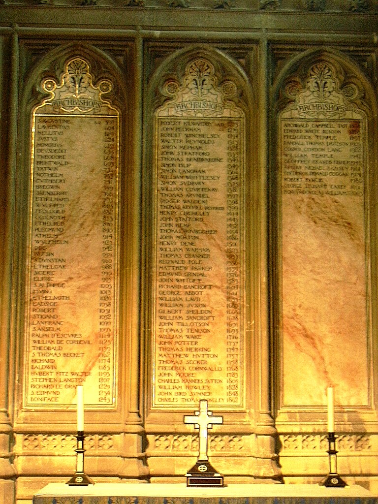 This picture shows the List of Archbishops of Canterbury, located in cathedral of Canterbury.